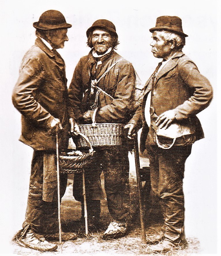 Collectors of herbs from Nová Lesná - 1907 (Slovakia)